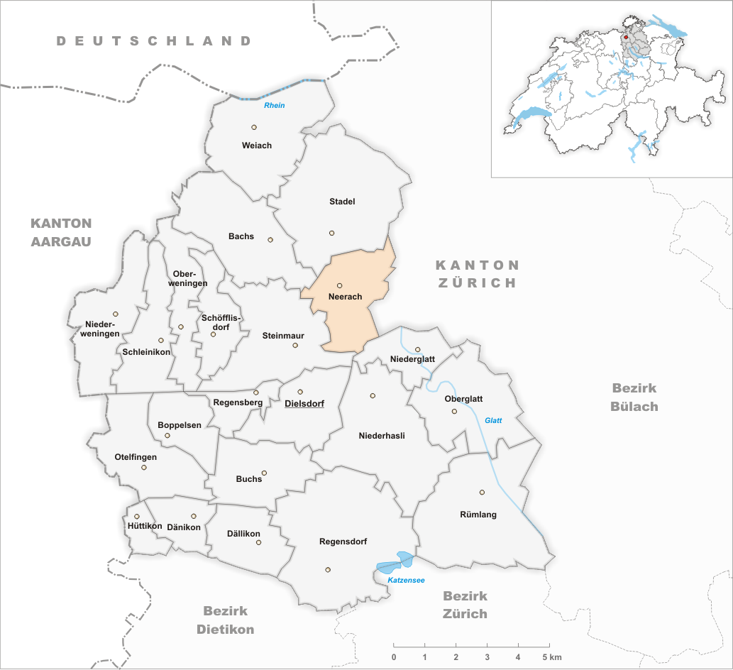 Municipality Neerach